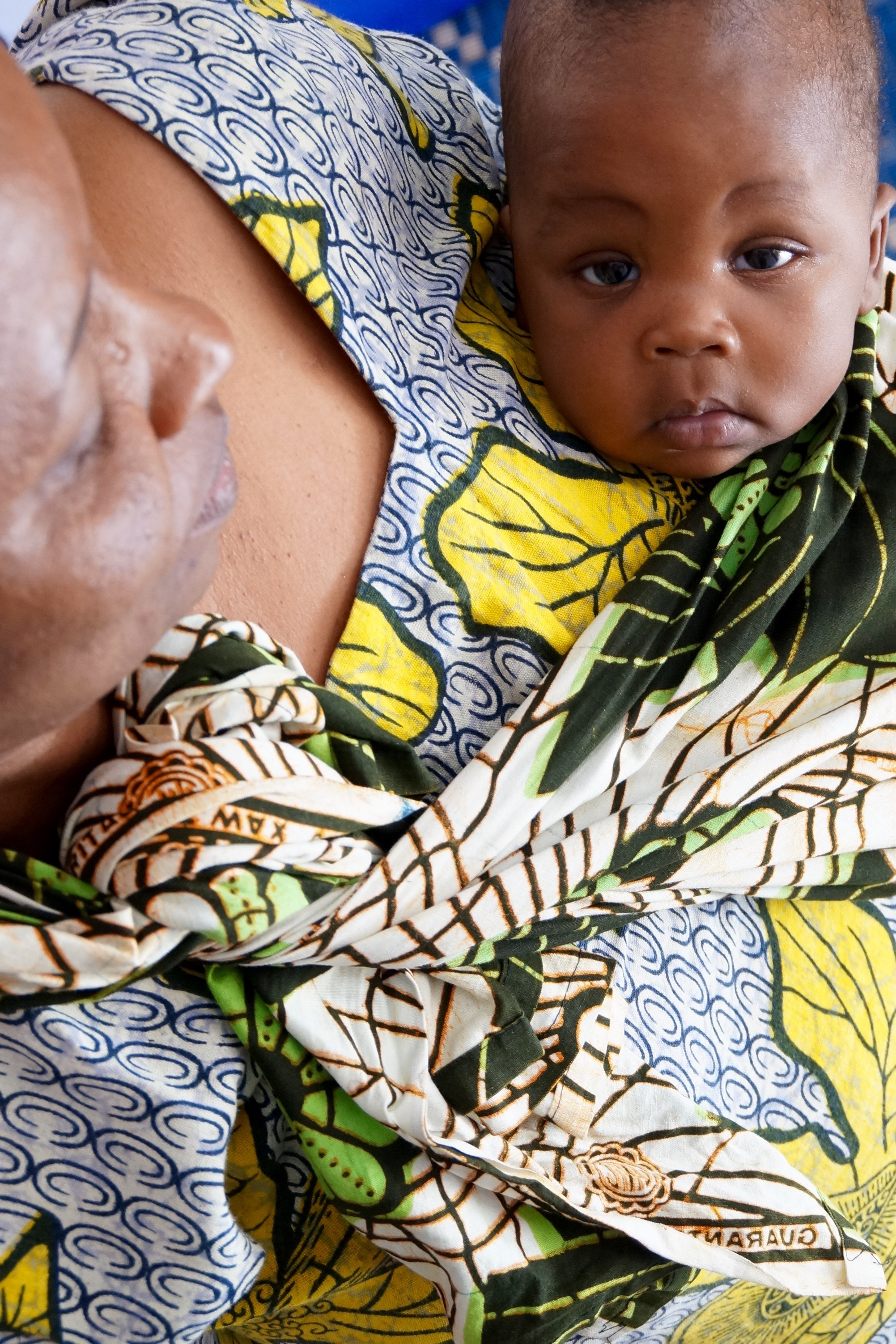 Grandmother and grandchild wrapped in Kitenge This is an image of Cultural Fashion or Adornment from Tanzania